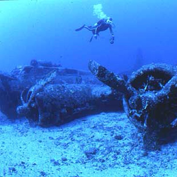 WreckOfTheWeek: Can you name this aircraft? #avgeeks #aviation #pilot #fly